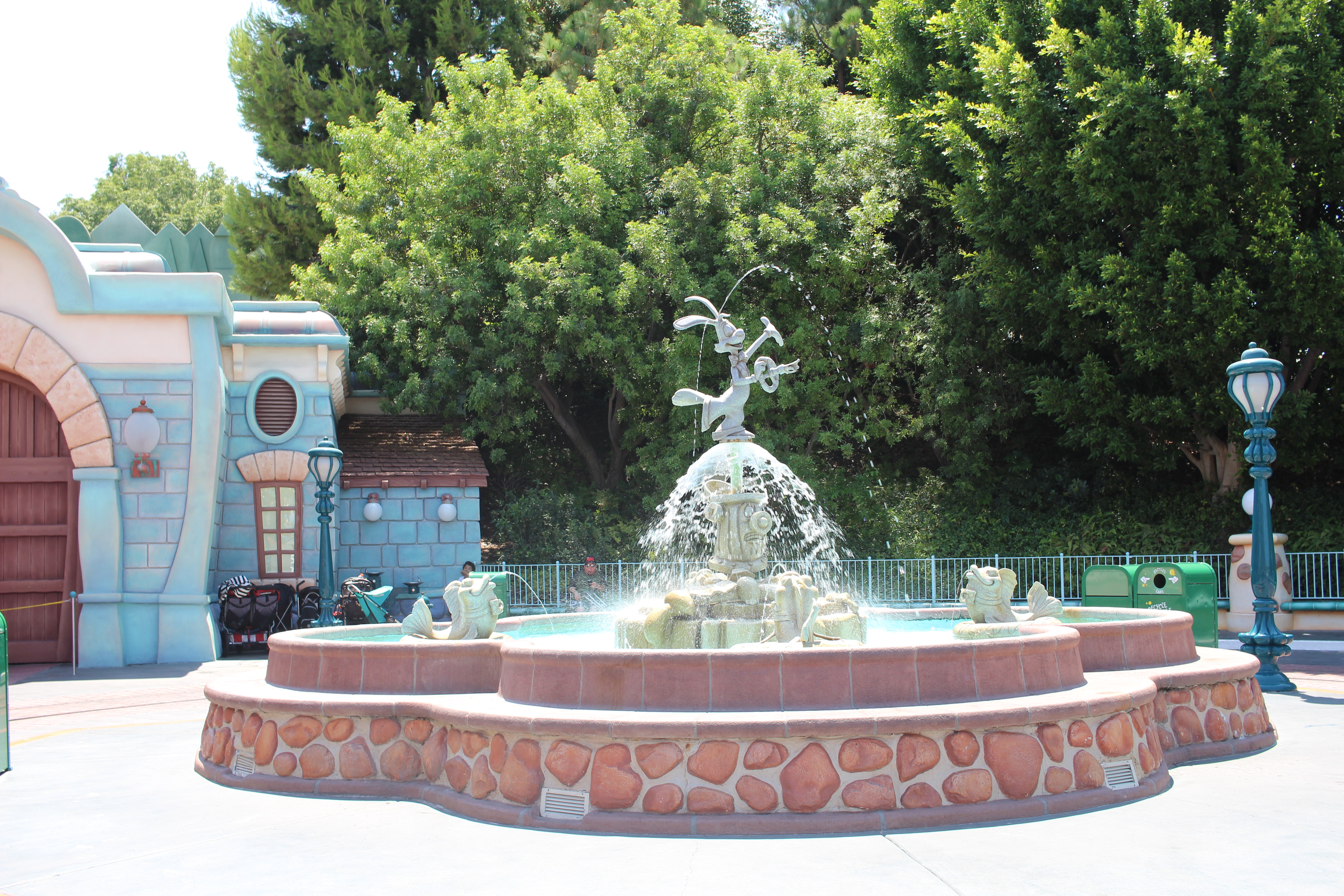 Robert Rabbit fountain in Toontown at Disneyland.